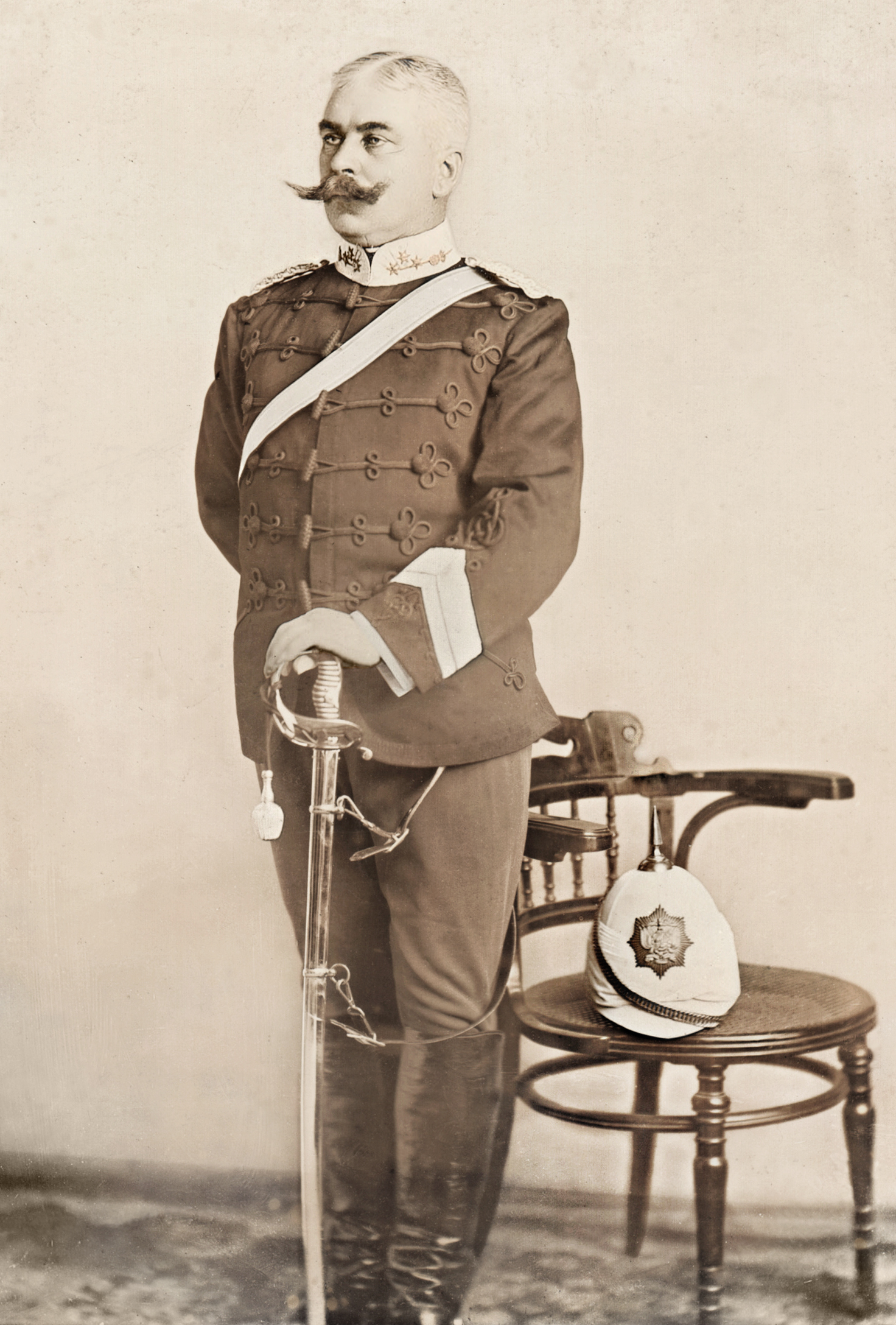 Colonel Adolf Schiel, Commandant Johannesburg Fort, Provenance photograph collection